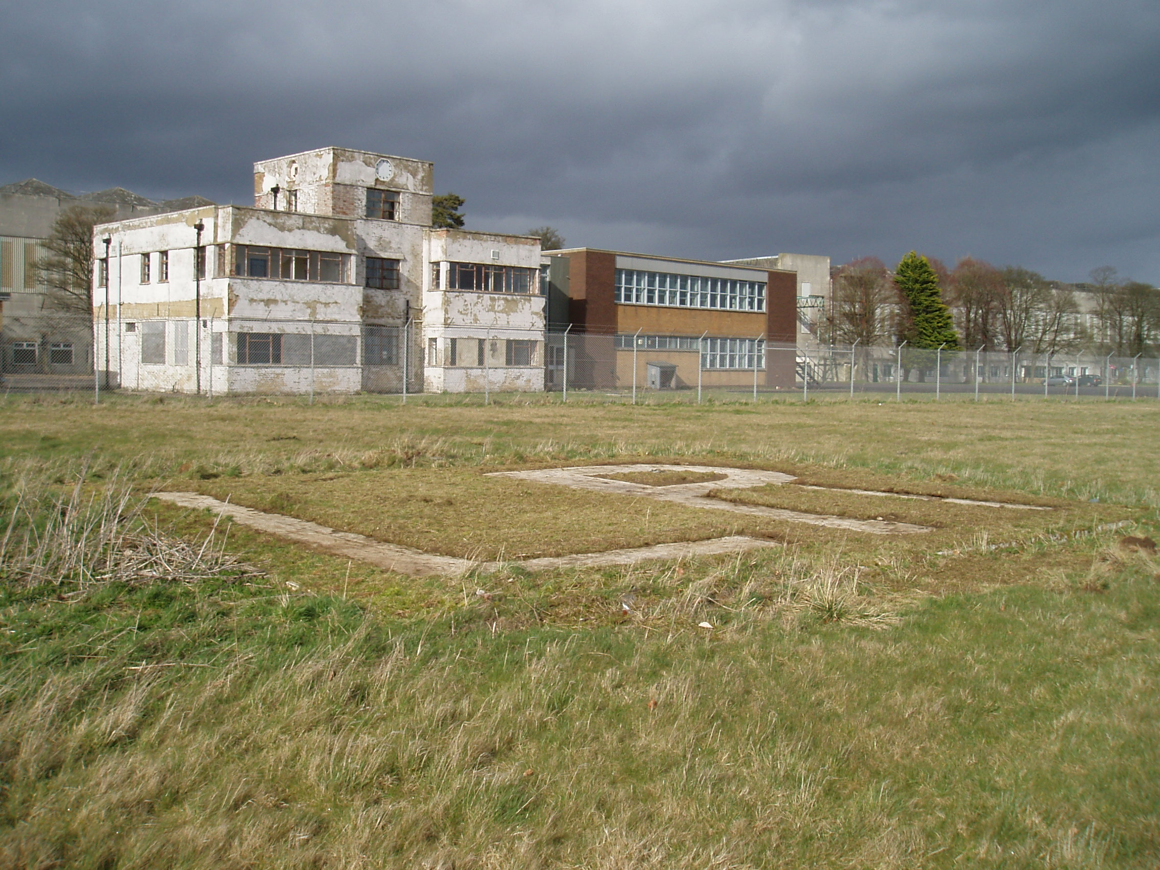 T E Pennock. CFS Watch Tower behind the Aerodrome Identifier at RAF Little Rissington